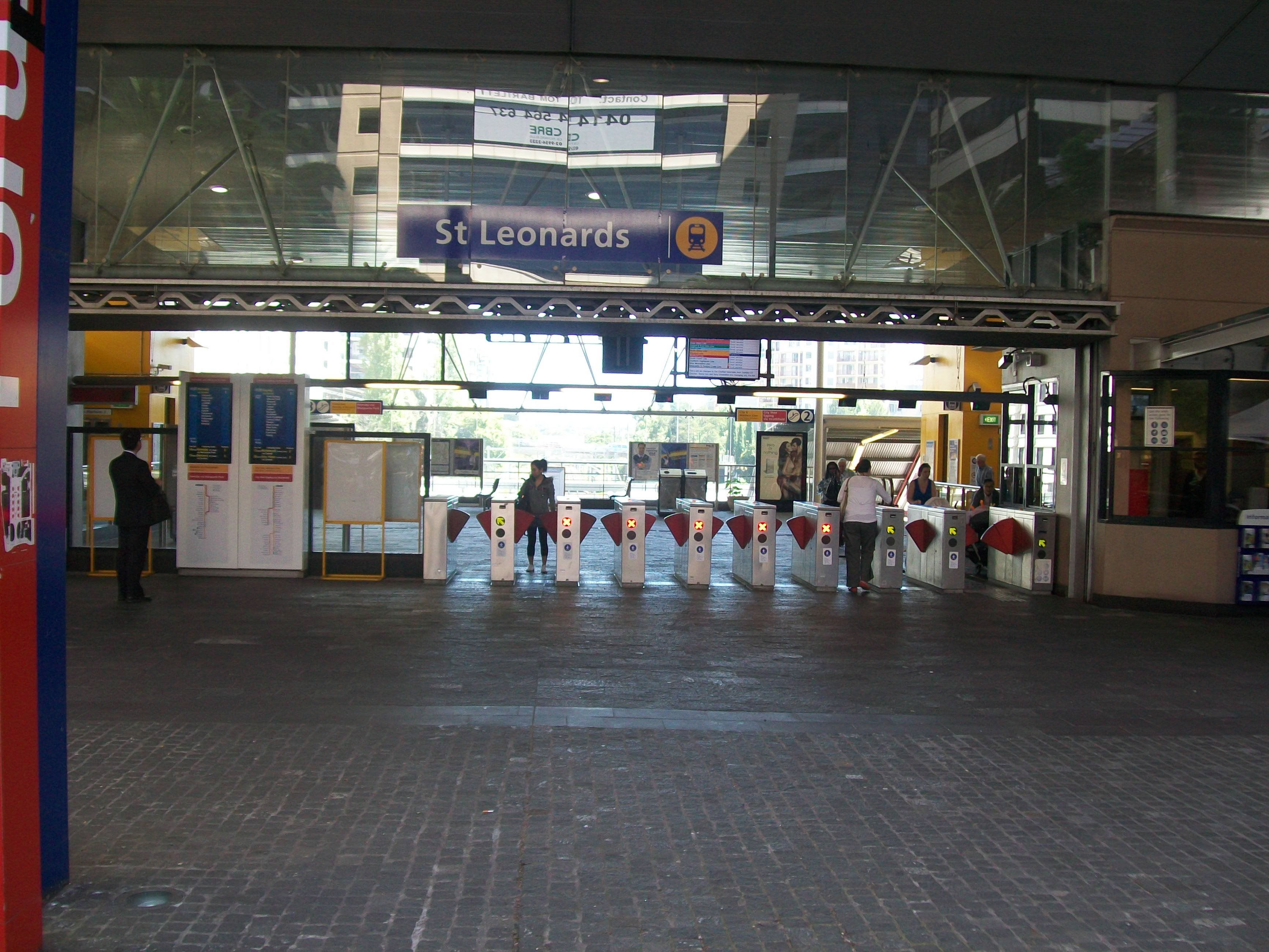 St Leonards Railway station ticket barriers